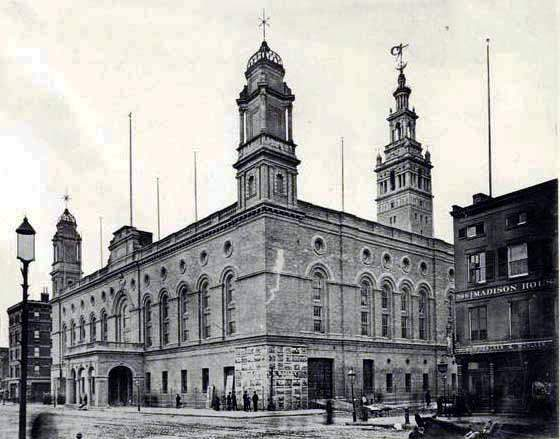 Madison Square Garden (built 1890), near Madison Square in Manhattan, New York City